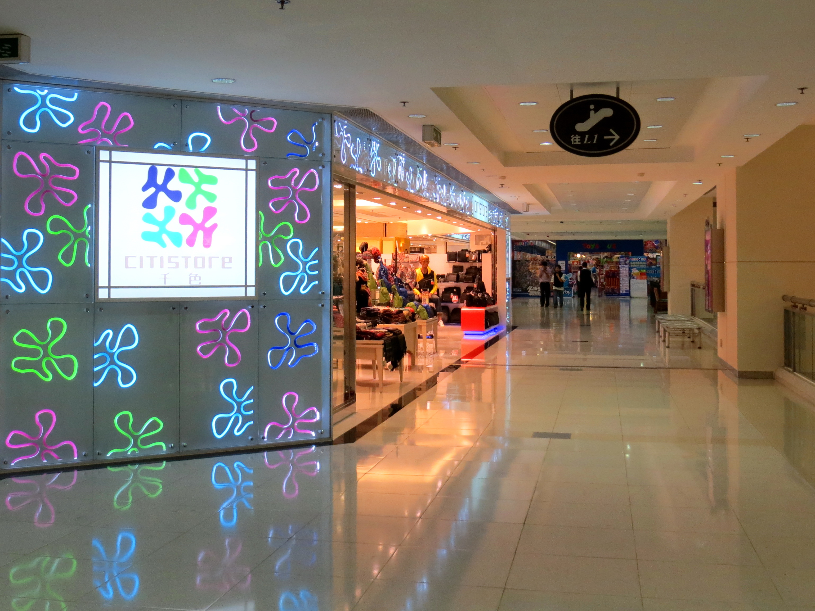 Citistore, Tseung Kwan O Store, Hong Kong.